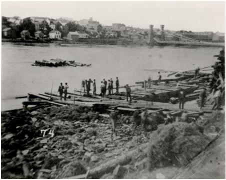 1869 photo of Scene on Nicollet Island looking toward St. Anthony. Photograph taken shortly after tunnel disaster of October 1869. Group of men sorting logs. A barge is visible in foreground. The buildings of St. Anthony are in the background.